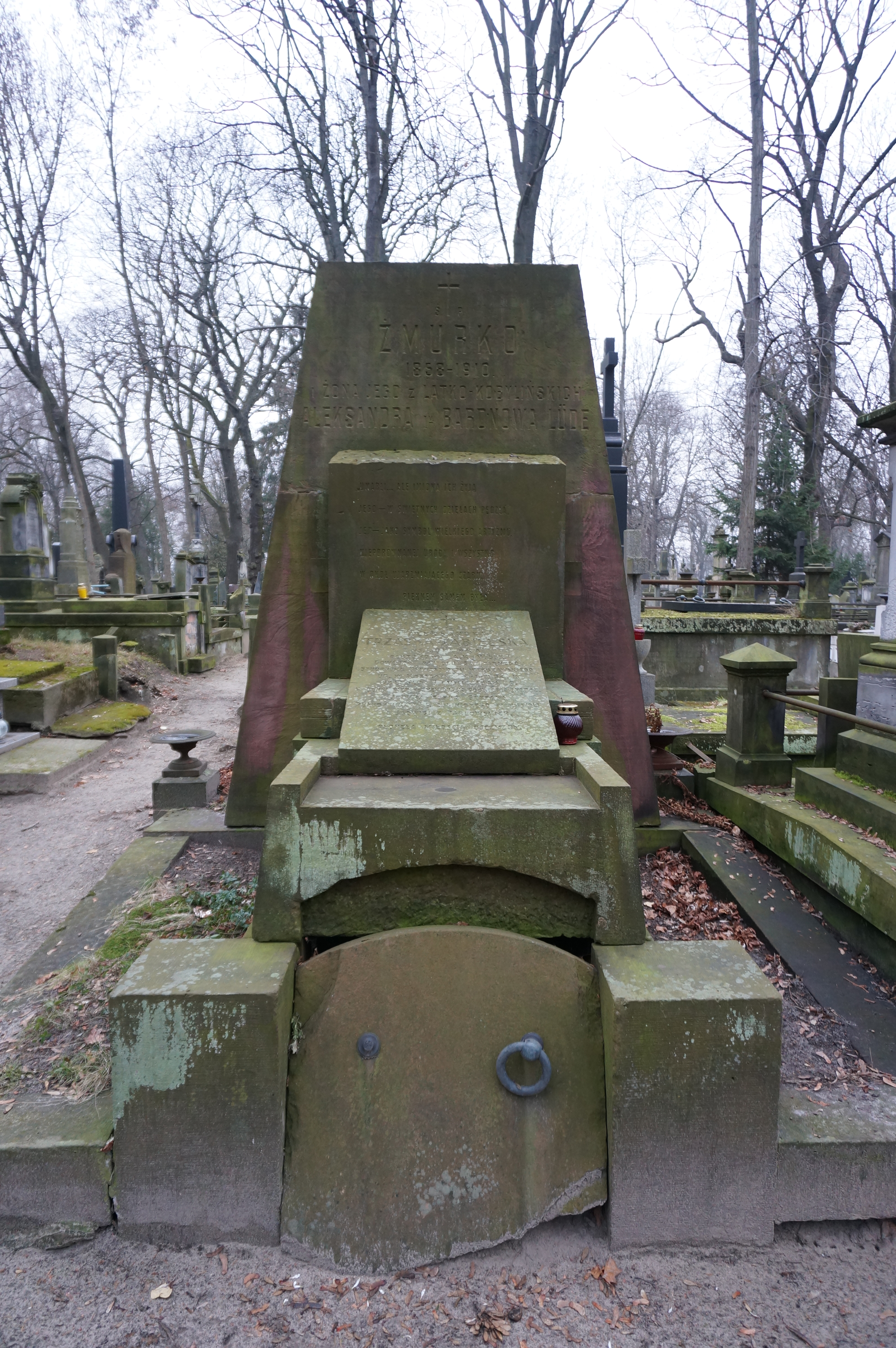 The grave of Franciszek Żmurko at the Powązki Cemetery (section E, row 2, grave 29, 30)